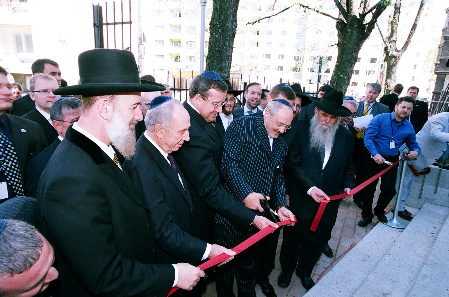 Ribbon-cutting ceremony at the opening of a synagogue in Tallinn, Estonia.